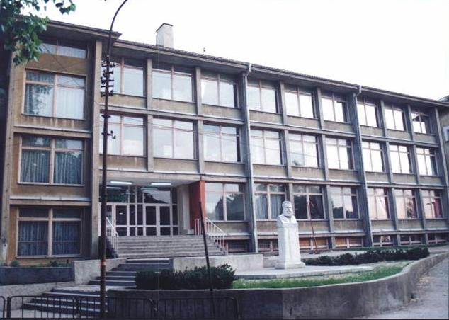 Elementary school "Lyuben Karavelov", Ruse